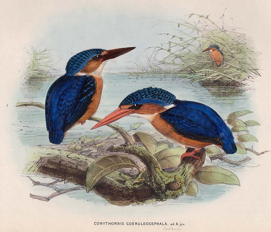 Corythornis coeruleocephala by Keulemans [= Alcedo cristata]